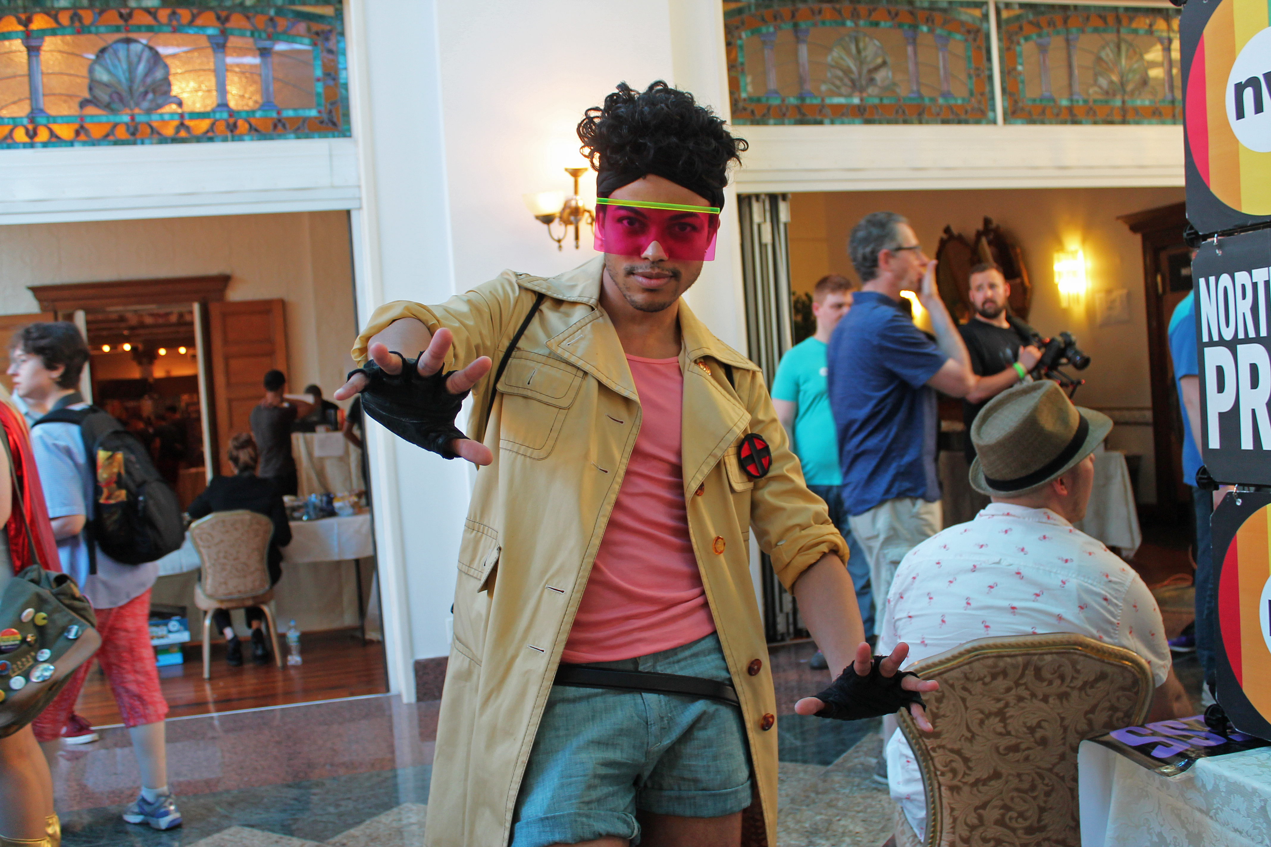 Possibly the best/my favorite Jubilee cosplay I've ever seen. The glasses are what seal the deal for me.